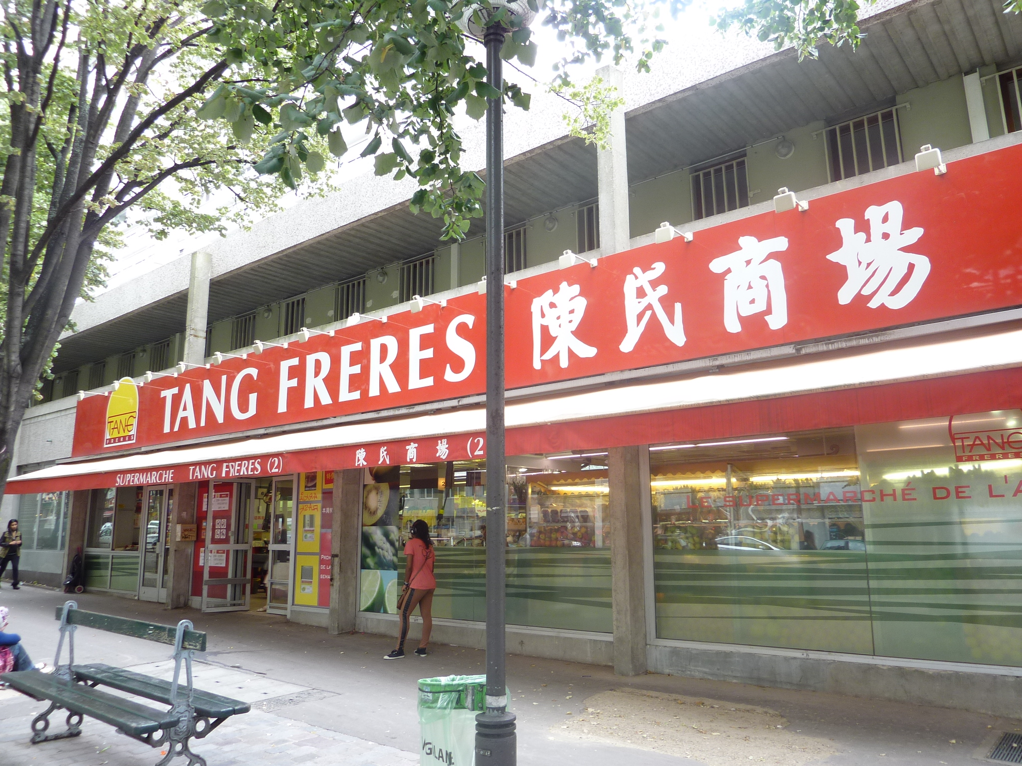 Tang Frères ("Tang Brothers" - 陳氏商場 Chénshì Shāng​chǎng) - The largest Asian market in France: Located on Avenue de Choisy, near Avenue d'Ivry. The surrounding area has many Asian restaurants and shops.